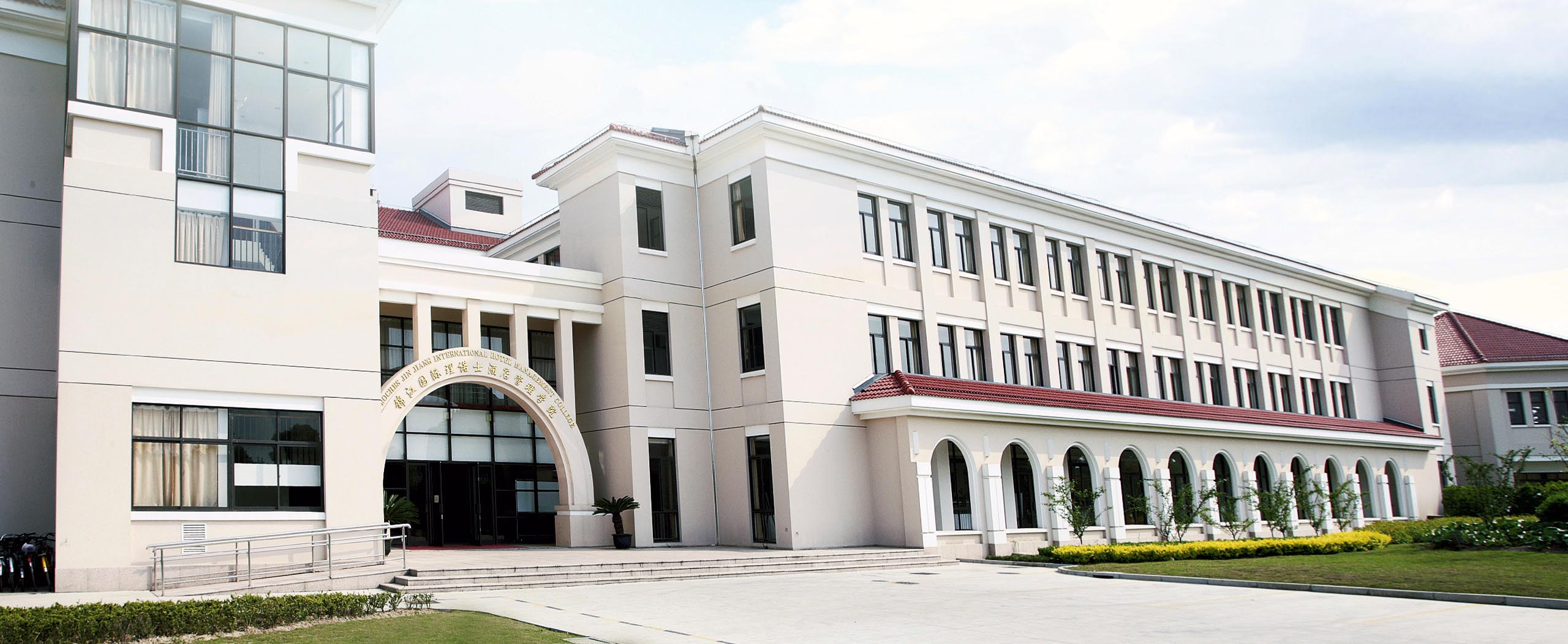 Photograph of Les Roches Jin Jiang building